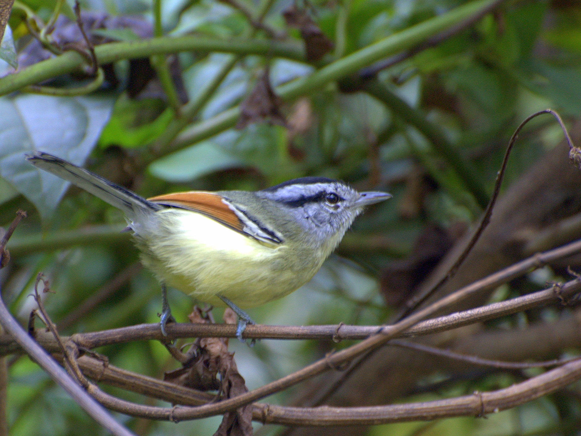 Rufous-winged Antwren (Herpsilochmus rufimarginatus) Horto Florestal de São Paulo